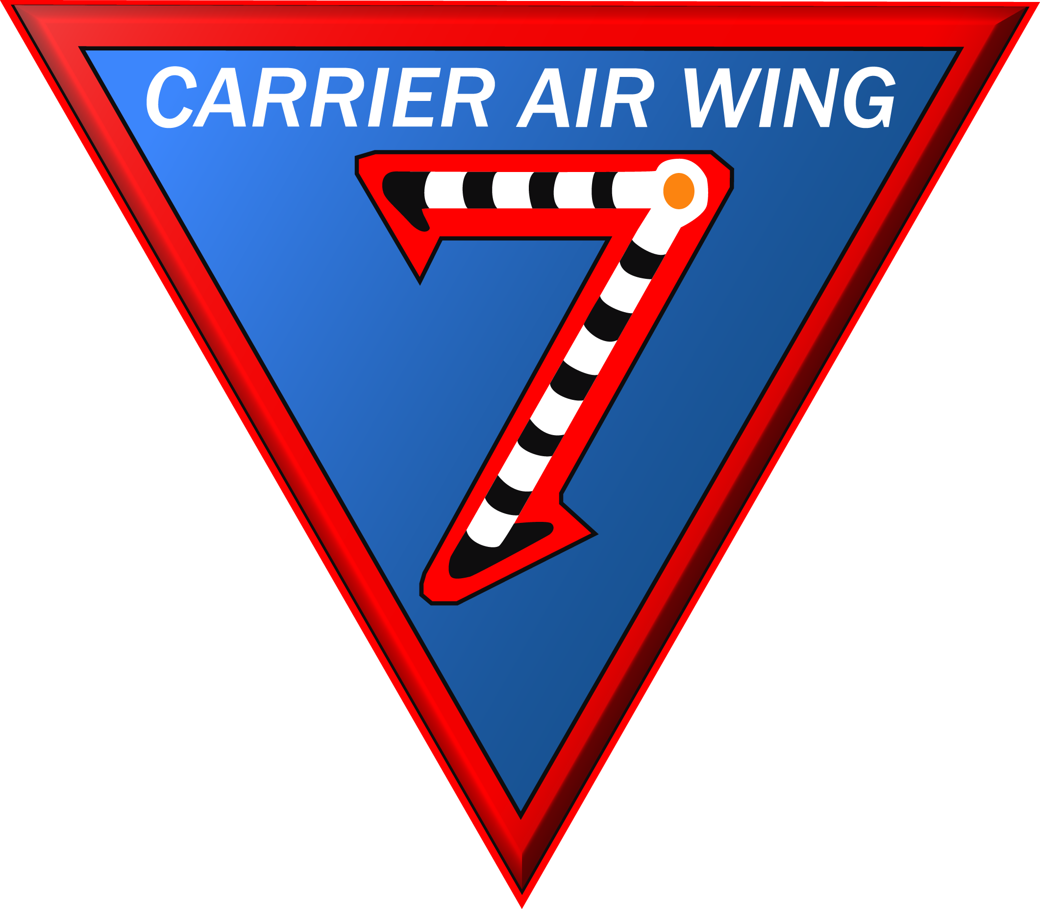 Insignia of the U.S. Navy Carrier Air Wing 7 (CVW-7).